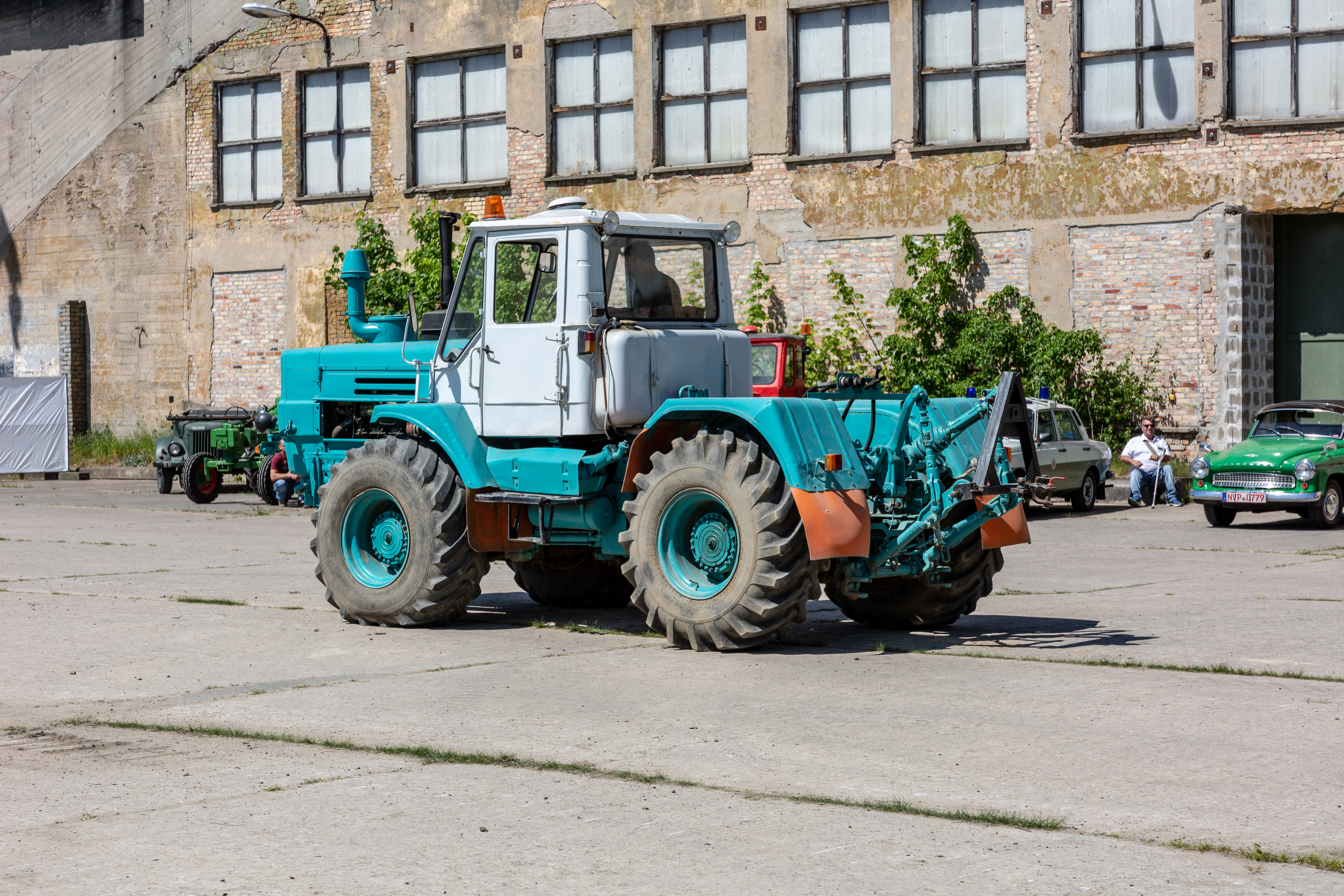 Pfingsttreffen Pütnitz 2018